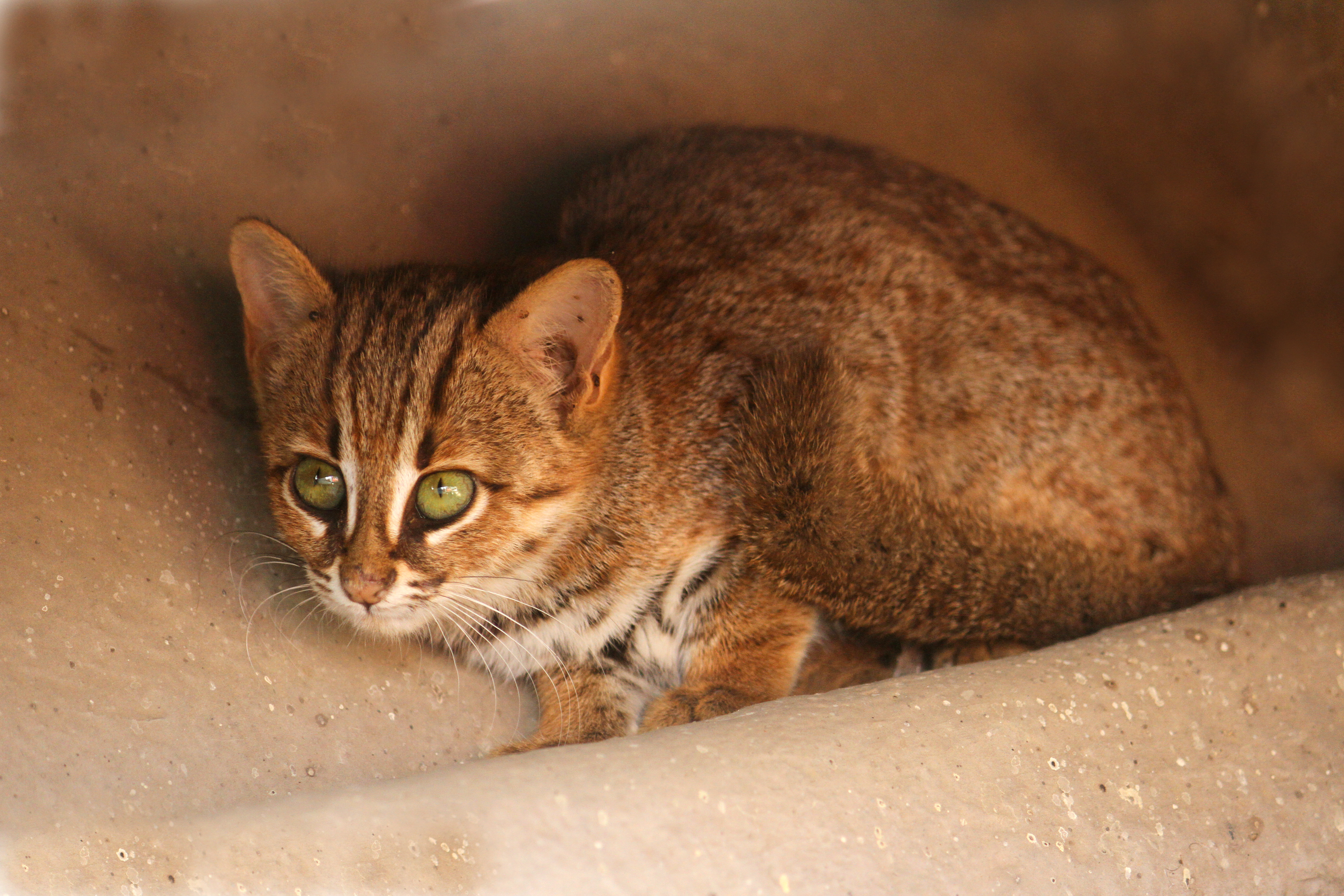 David raju_mammals